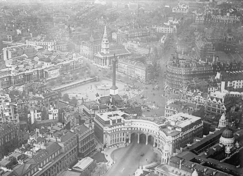 Photography Admiralty Arch and Trafalgar Square - Air photograph.